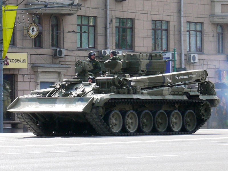 BREM-1 Armoured recovery vehicle with a crane, dozer blade and towing equipment.